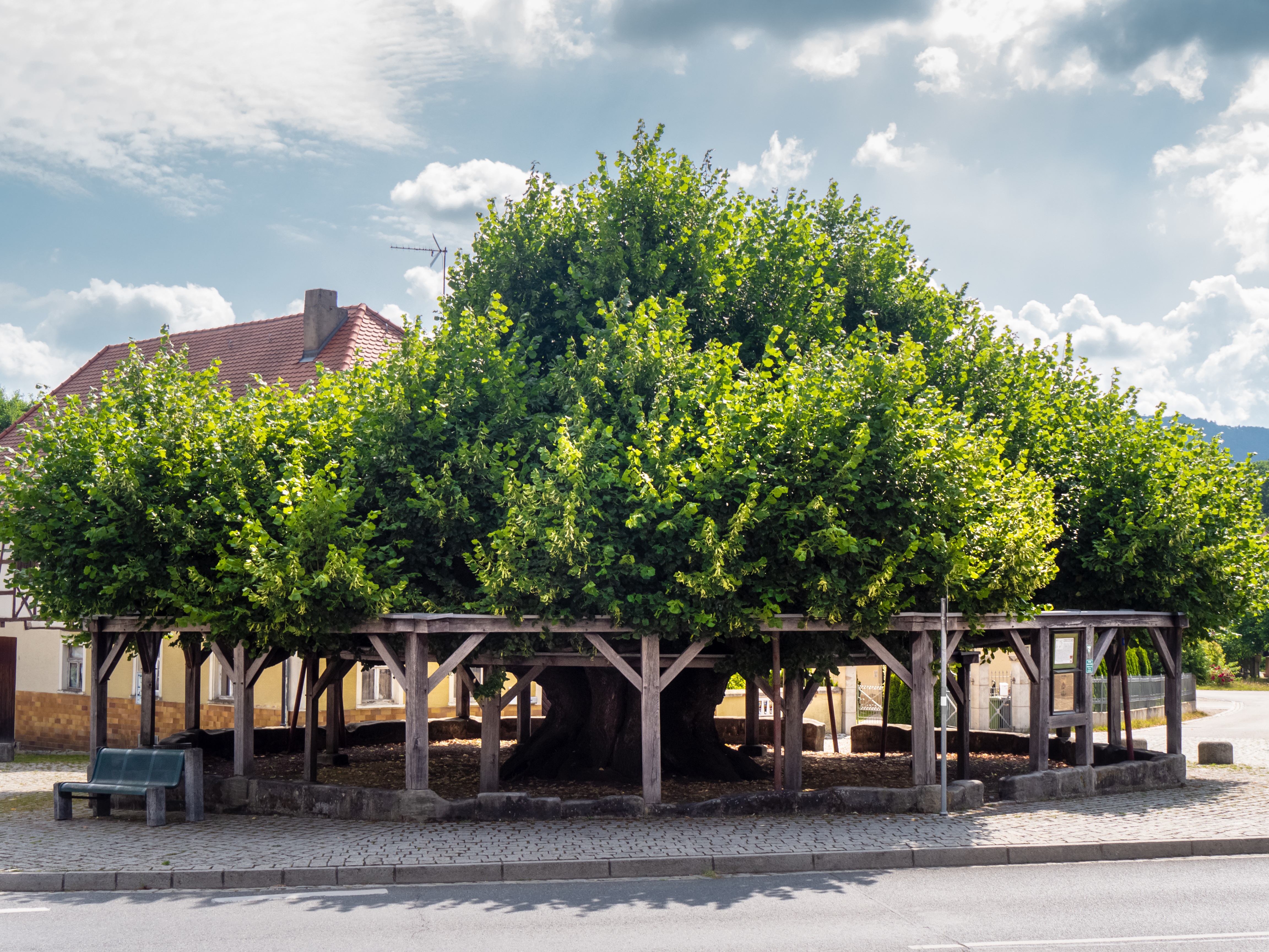 dance linden (tree) in Effeltrich